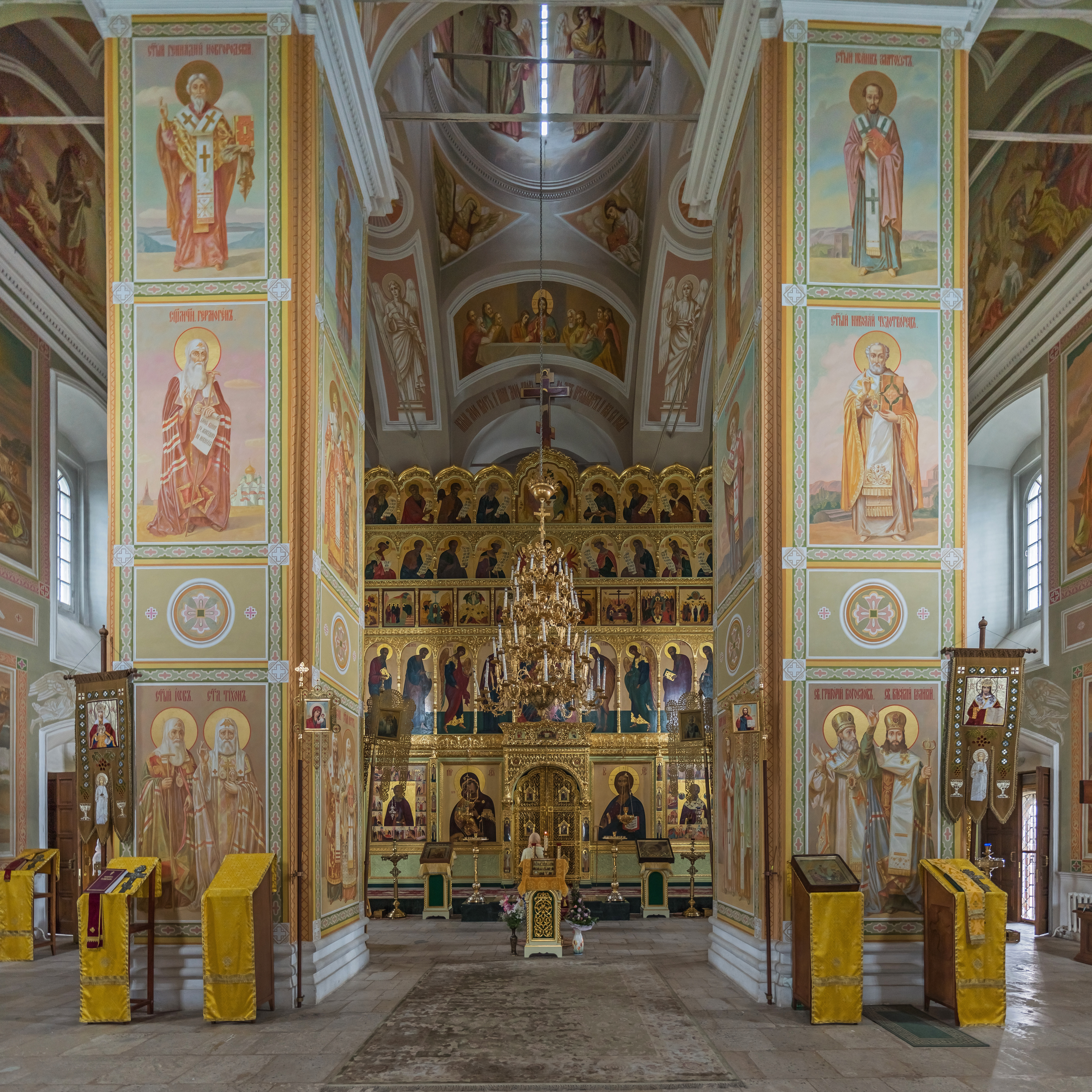 Nikolo-Shartomsky Monastery in Vvedenye, Ivanovo Oblast, Russia: interior of St. Nicholas Cathedral